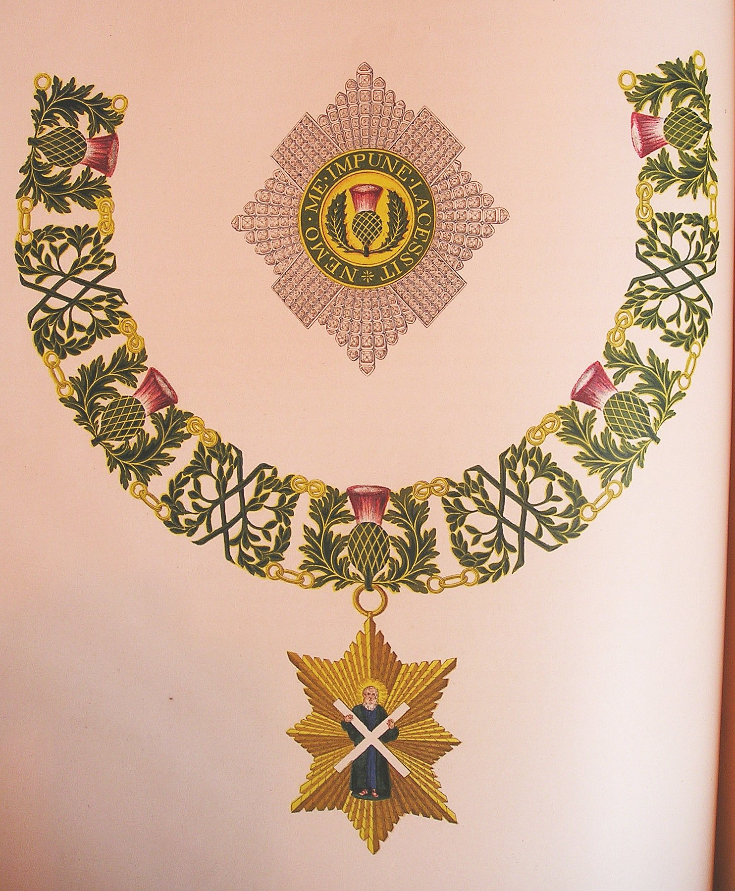 Insignia of a Knight of the Order of the Thistle